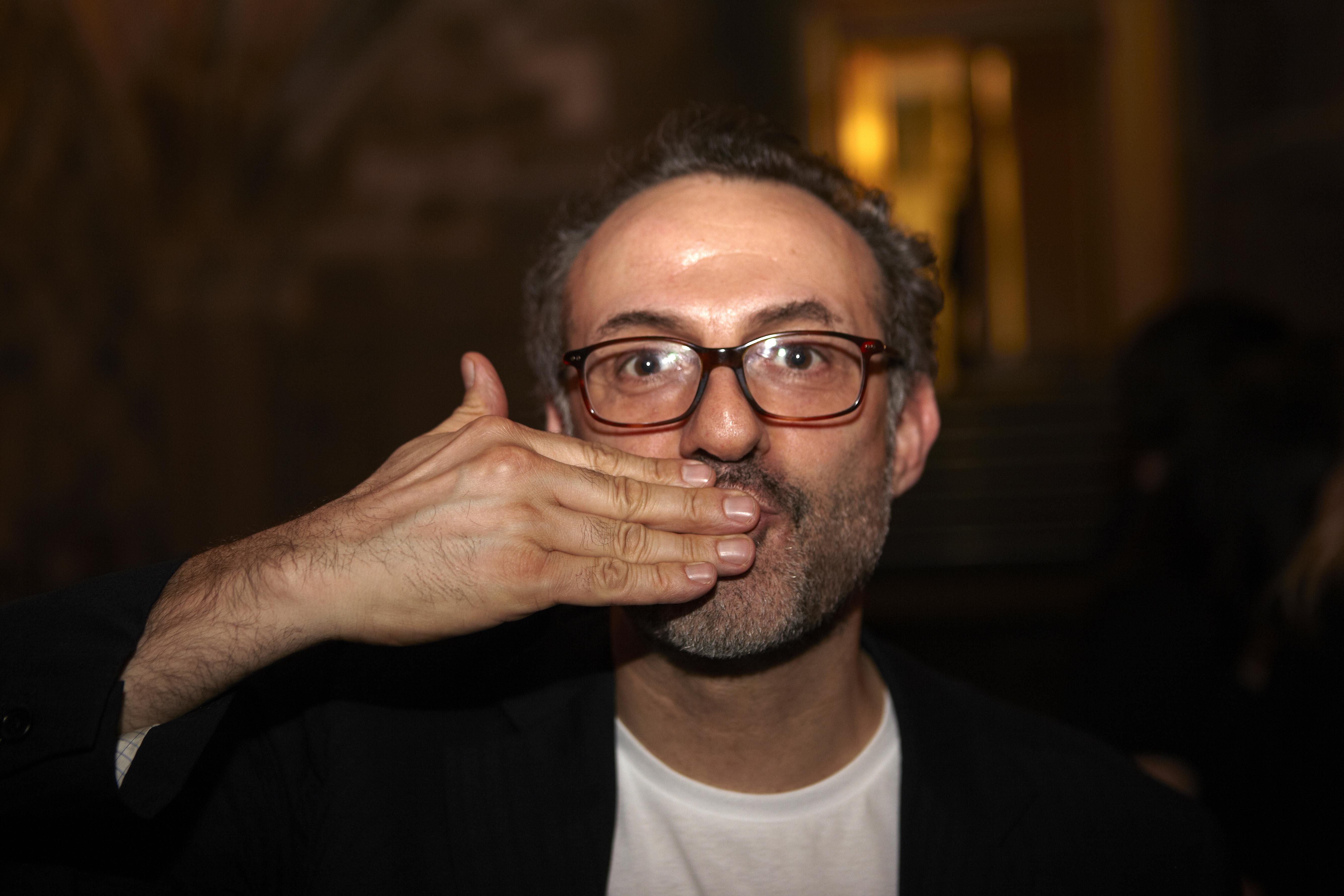 Picture taken of Massimo Bottura at the World's 50 Best Restaurants Awards